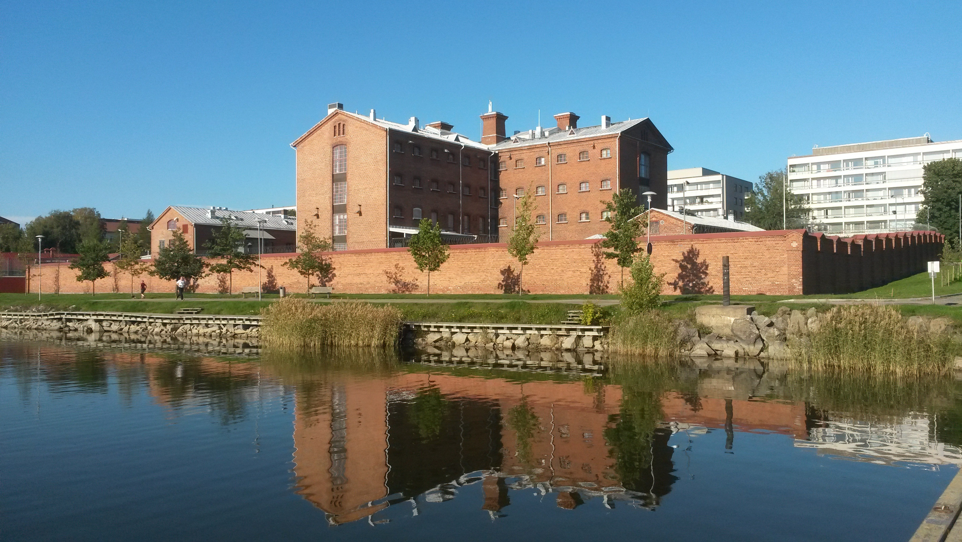 Vaasa prison as seen on a sunny day in September 2014.